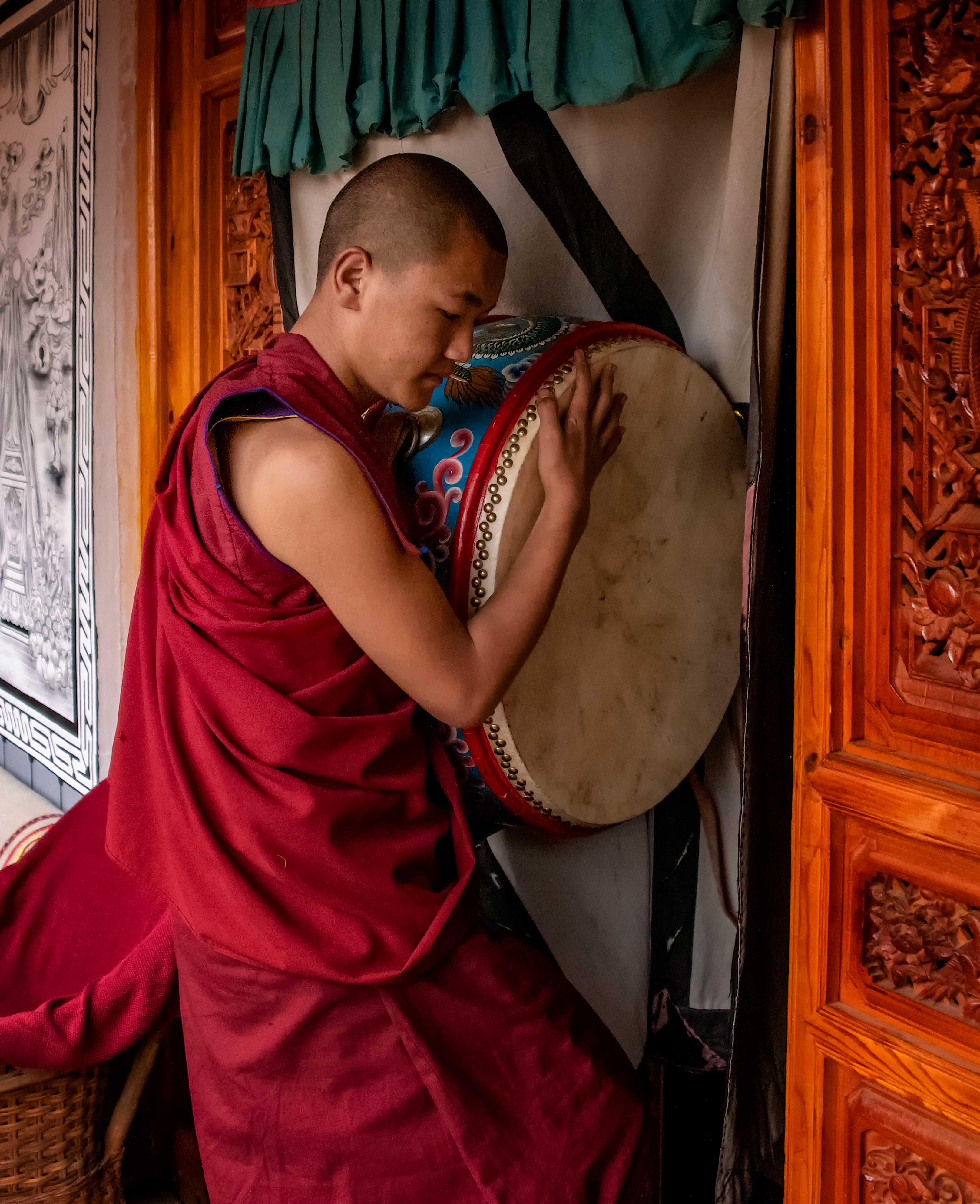 Yunnan, China